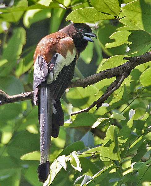 Roufous Treepie (Dendrocitta vagabunda) in Kolkata, West Bengal, India.